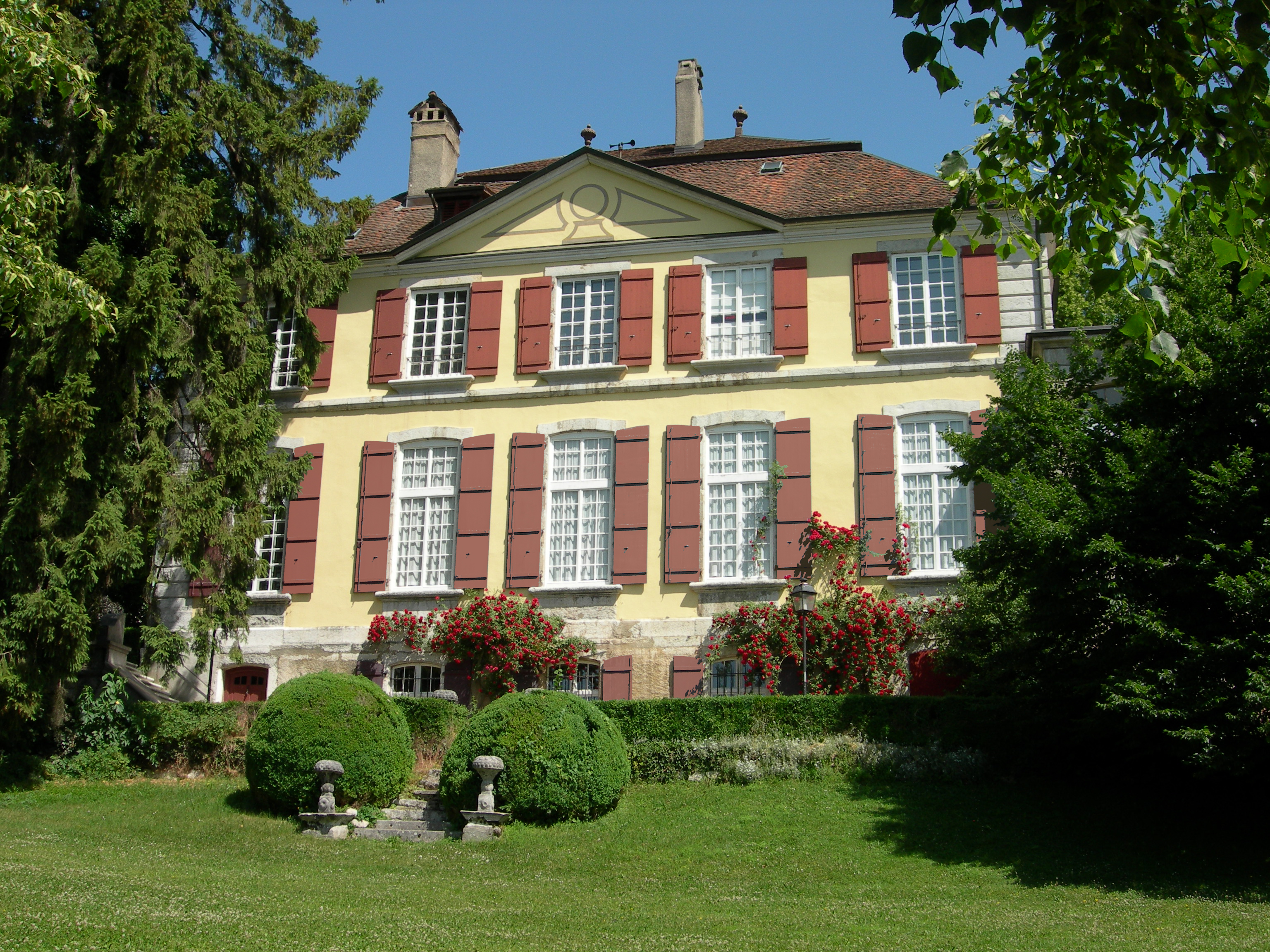 Historical Museum Blumenstein in Solothurn, Switzerland, south facade